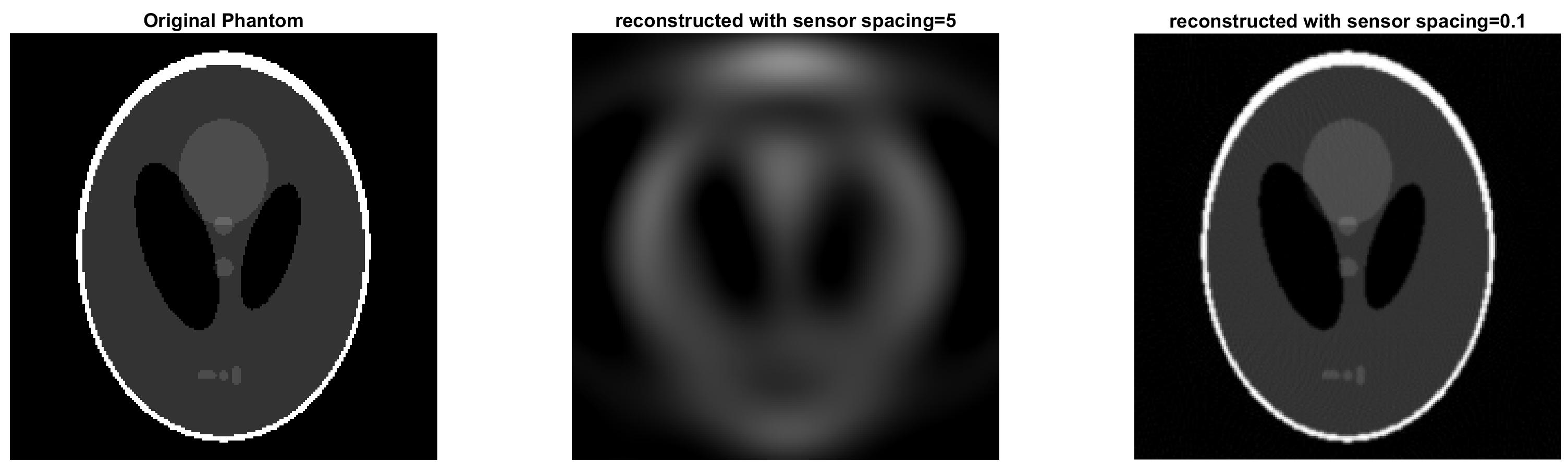 Fan-beam reconstruction of Shepp-Logan Phantom with different sensor spacings